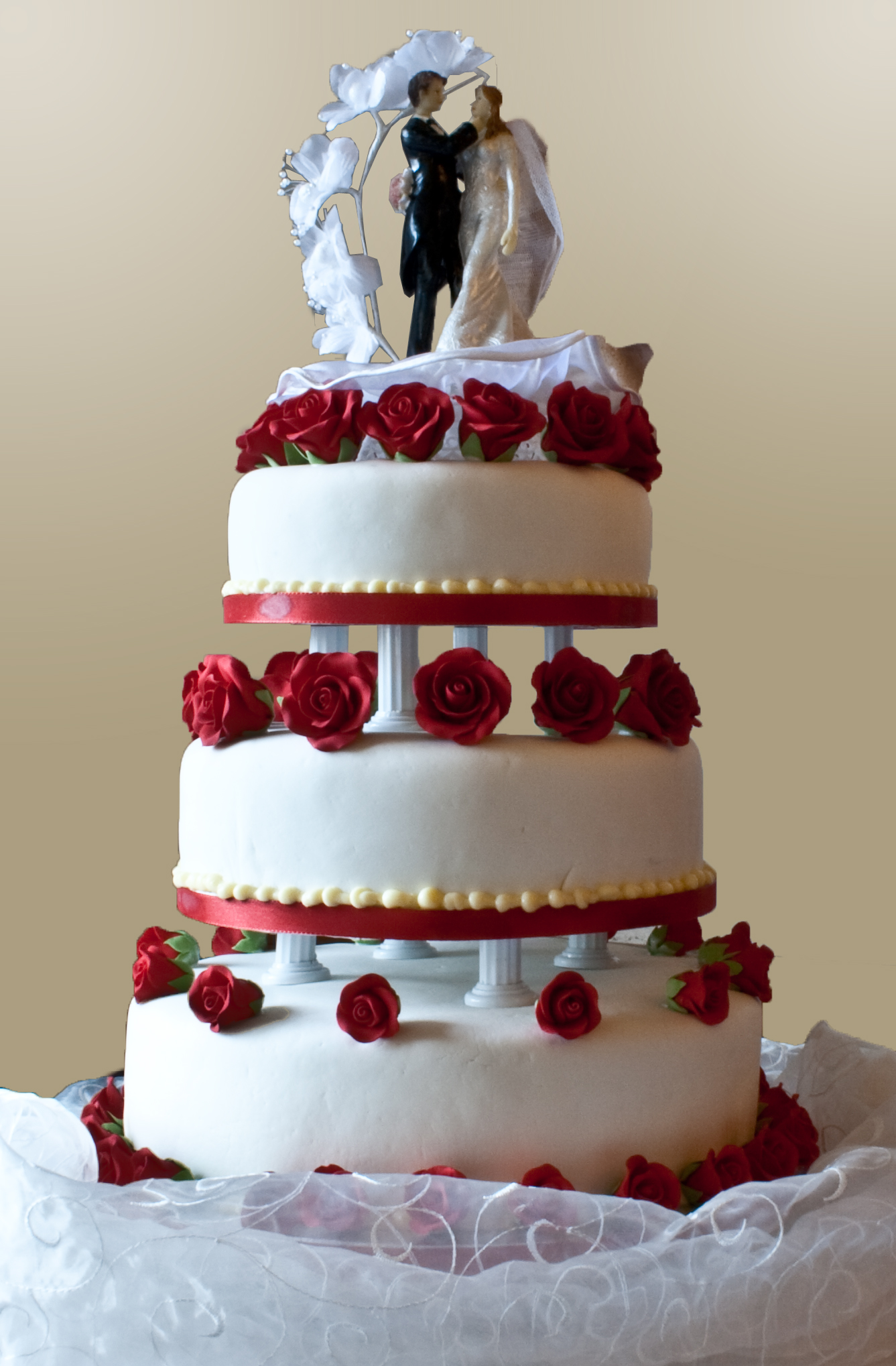 Cake photo taken during one of my friend's wedding. Changed the background of the image using Photoshop. For this shot I kept the cake near the window for getting side light in order to get the depth and reveal the shape.